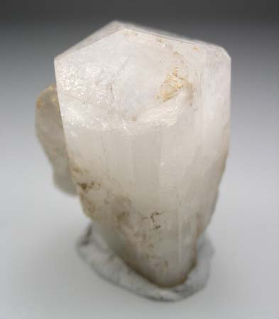 Natrolite Locality: Khibiny Massif, Kola Peninsula, Murmanskaja Oblast', Northern Region, Russia (Locality at ) A BIG, THICK crystal of natrolite, well-terminated, with a pearly luster. Unusual locality - we were told these were mined some 25-30 years ago. 4.1 x 2.9 x 2.8 cm